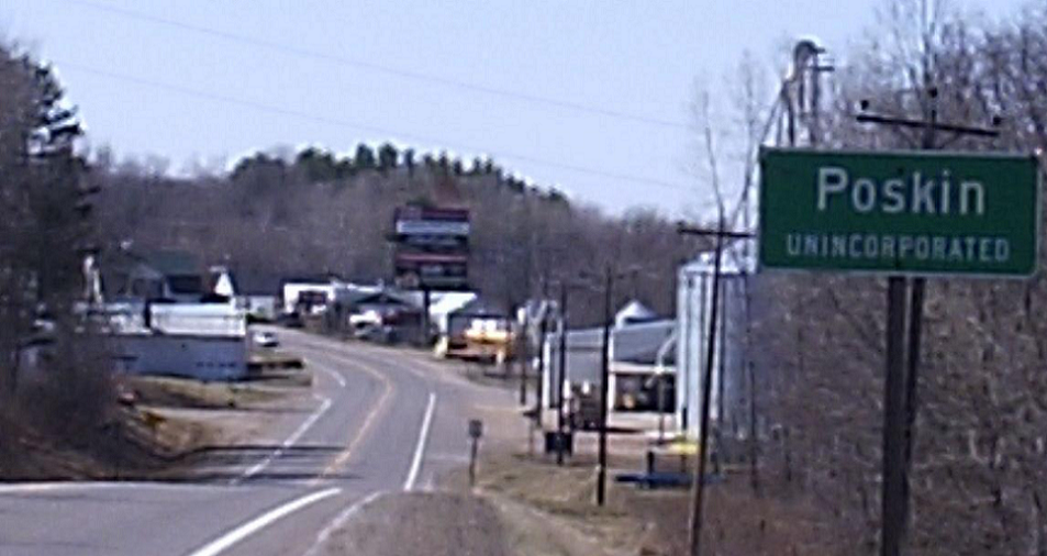 This picture is taken looking west along U.S. Route 8 entering Poskin, Wisconsin in early springtime. Picture taken 15 April 2007 by User:Wub with my mom's digicam. Uploaded after some cropping by User:TShilo12